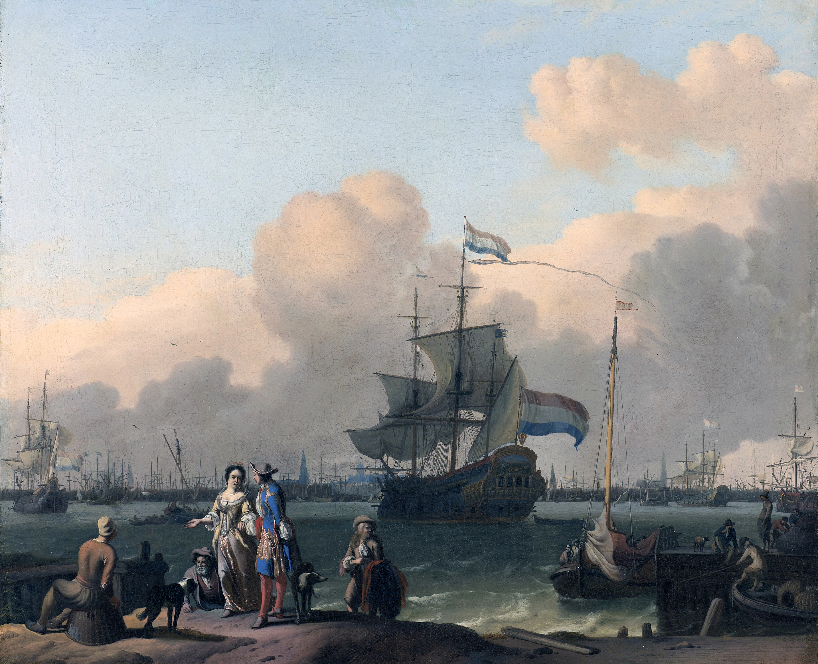 View of a port with many larger and smaller ships including the tall ship ‘De Ploeg’ (The Plough, a frigate with a ploughing farmer painted on her stern). The city can be identified as Amsterdam though its buildings (from left to right: Oude Kerk, Royal Palace, Haringpakkerstoren and Westertoren). In the foreground various people, on the right a jetty.